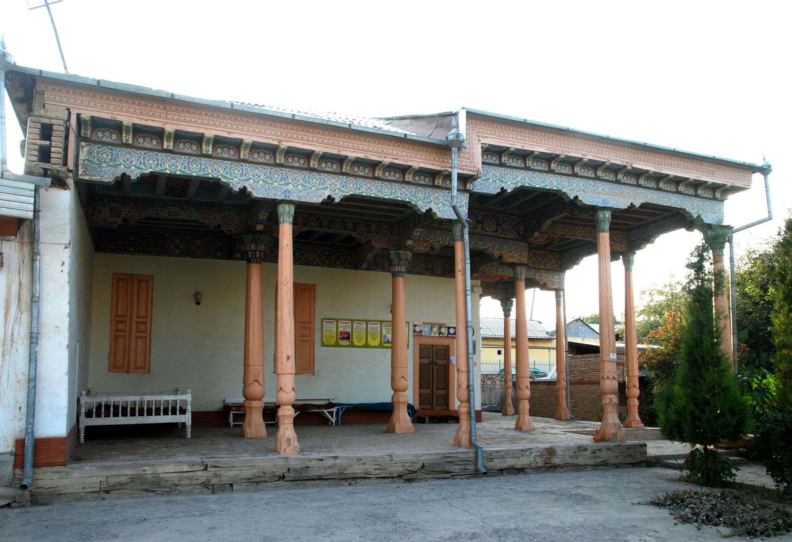 Istaravshan, Havzi Sangin mosque